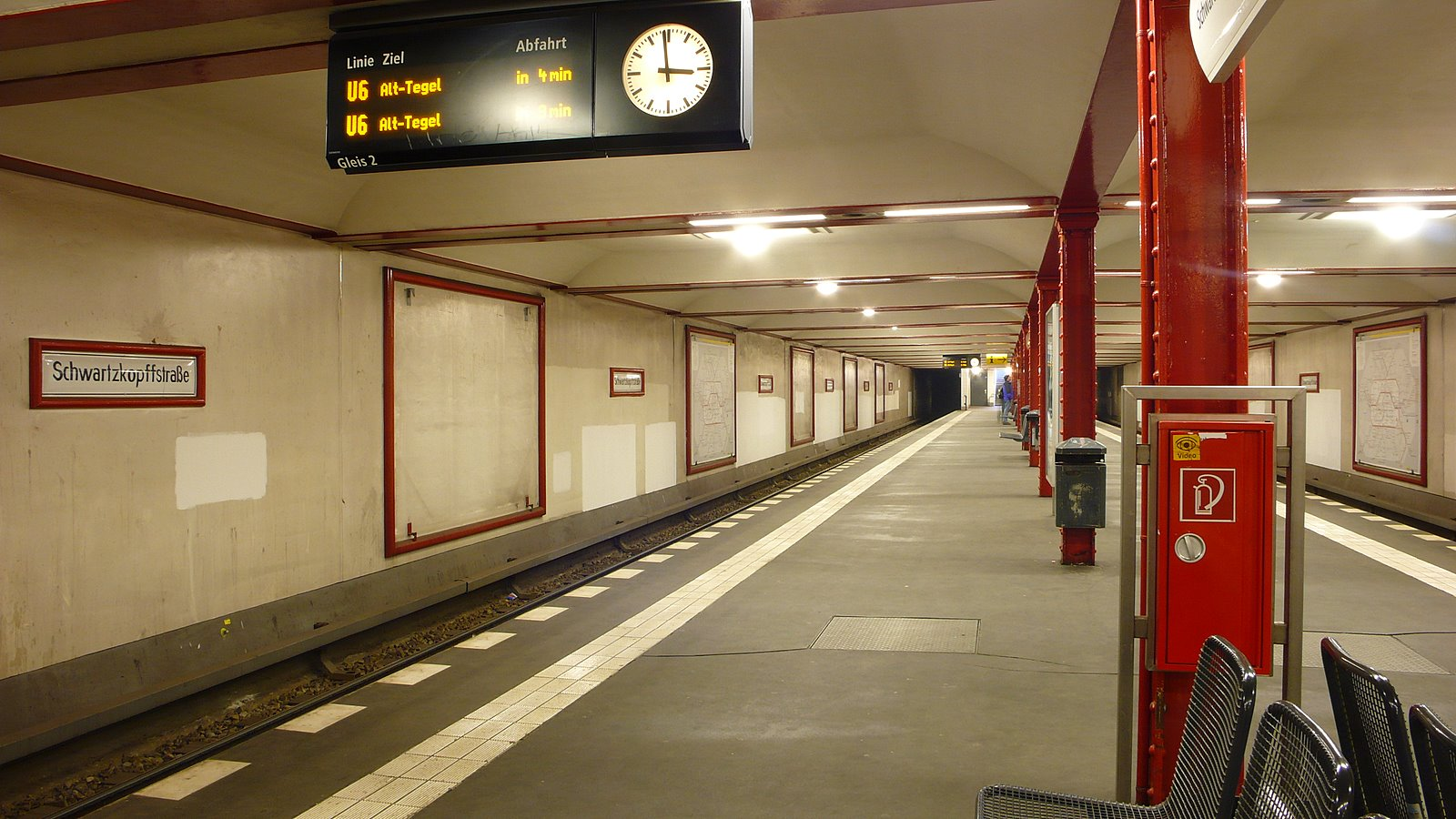 Schwartzkopffstrasse subway